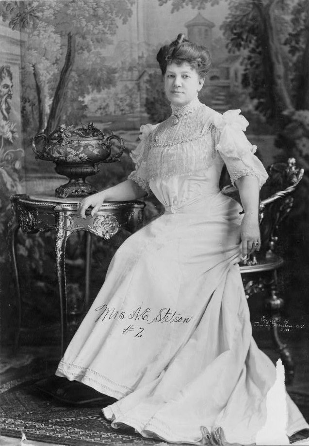 Augusta E. Stetson, full-length portrait, seated, facing slightly left